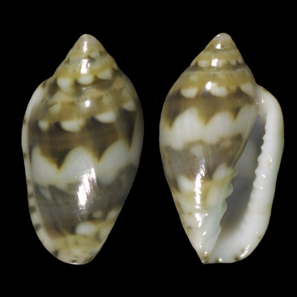 Species: Marginella melvilli Tomlin & Shackleford, 1913 Specimen: Luis Ferreira collection data: by scuba at 3m, on rocks Baía Sto. Antonio, Principe Is. L 8,8mm